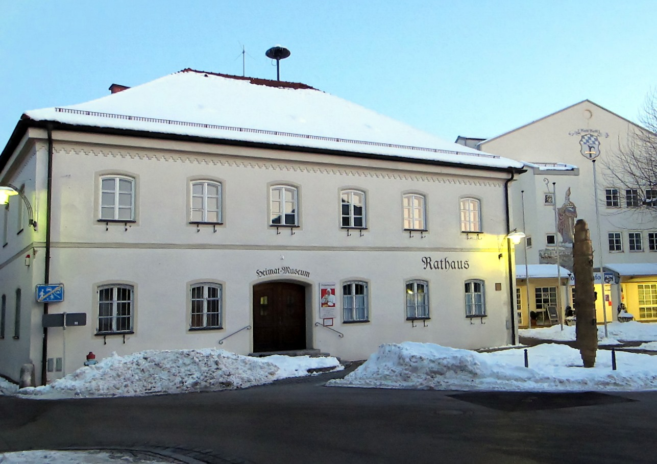 Marktl: Cityhall